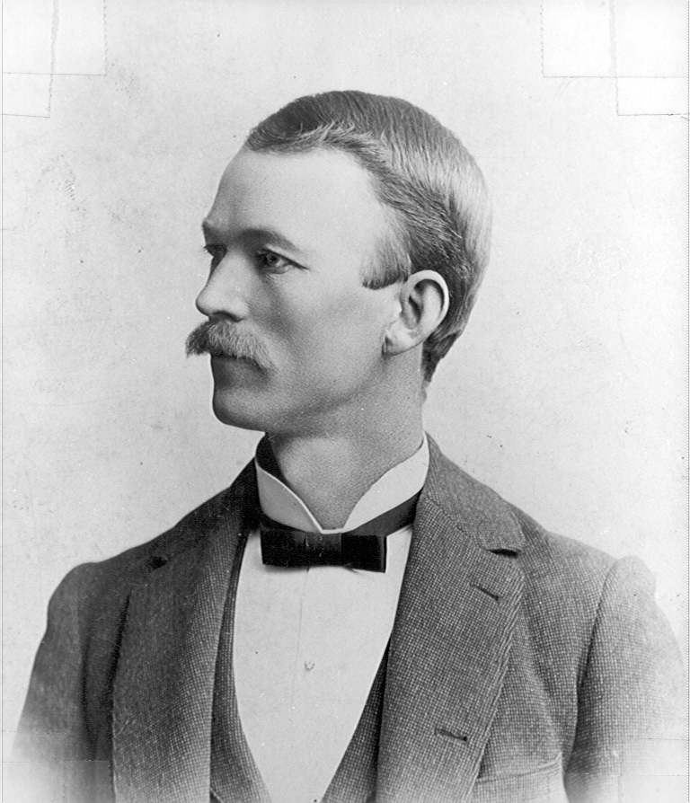 Portrait of Matthew Sandefur Browning (1859-1923)